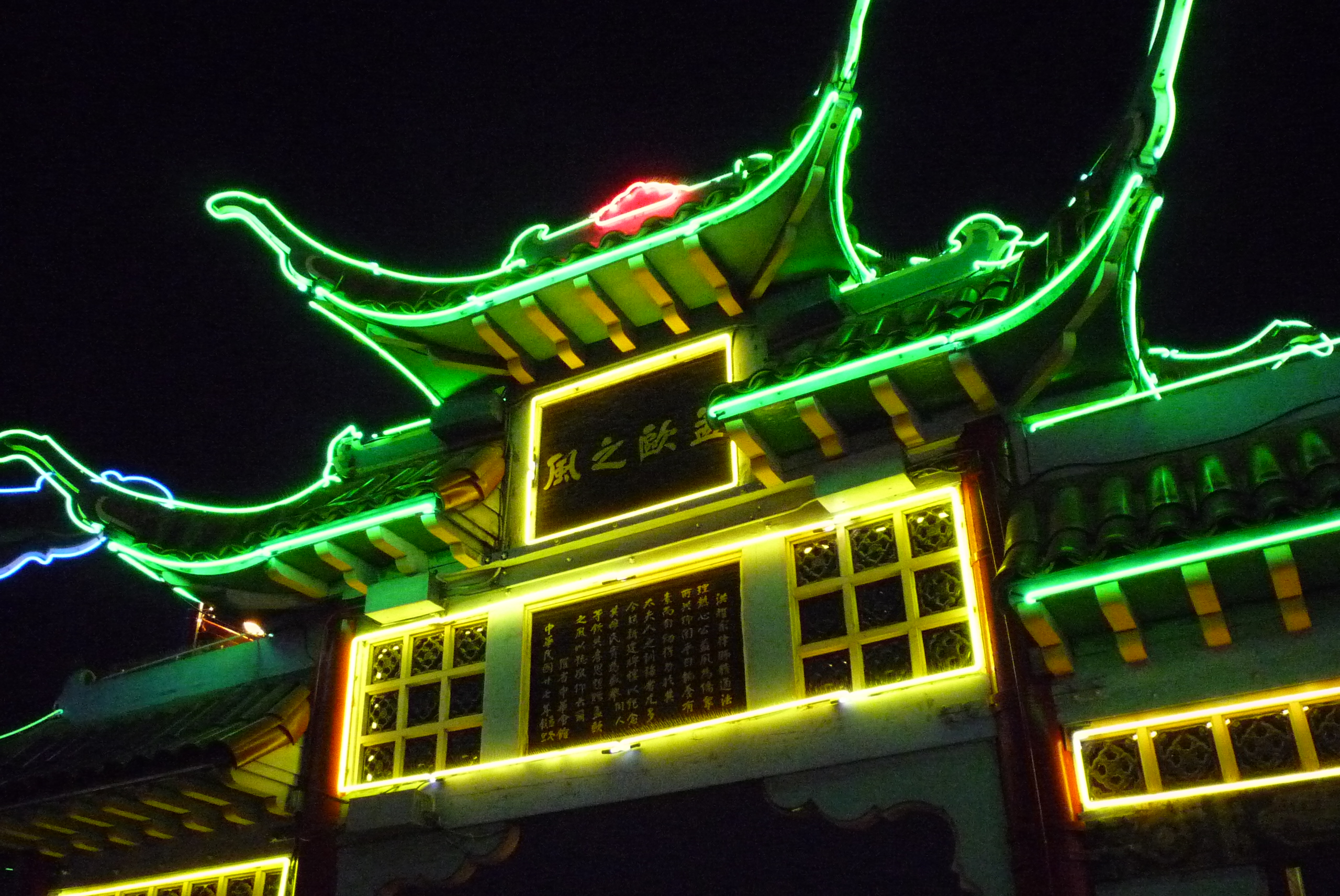 Los Angeles Chinatown